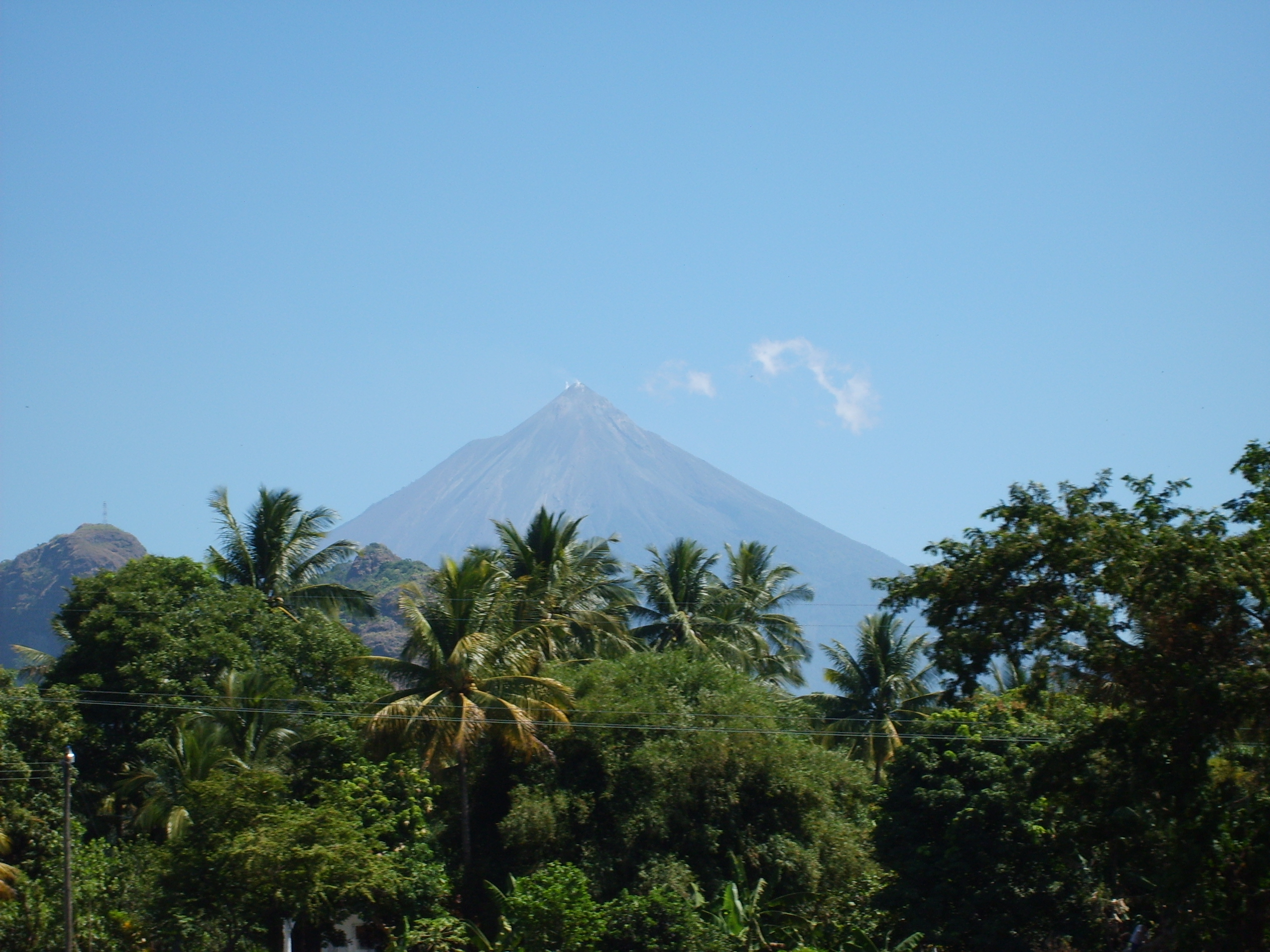 Fuego volcano, from the Pacific coastal plain of Guatemala.